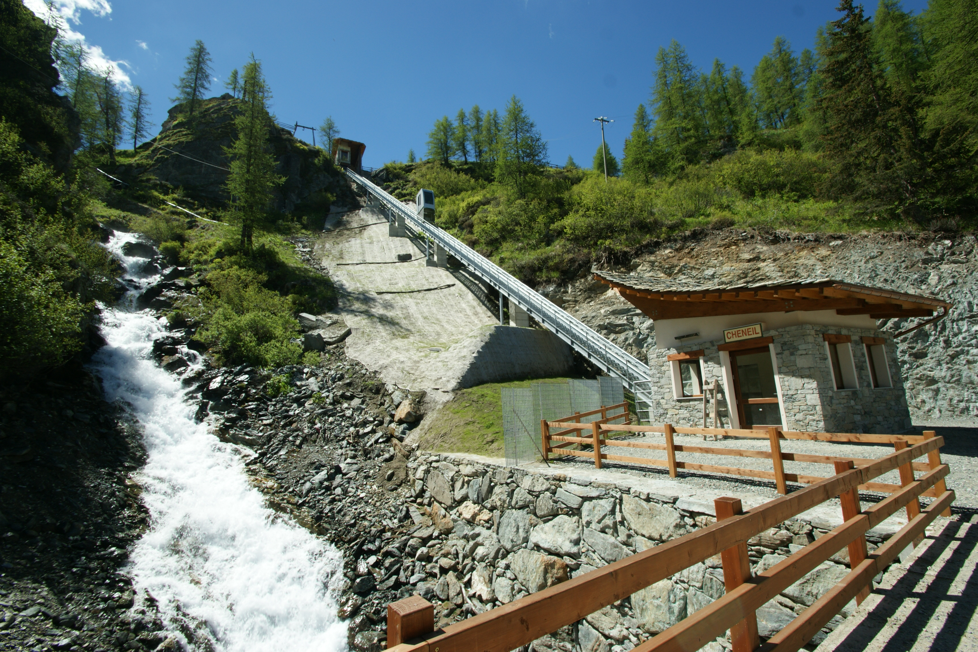 Inclined Lift Chenail, Valtournenche, Aosta Valley, Italy